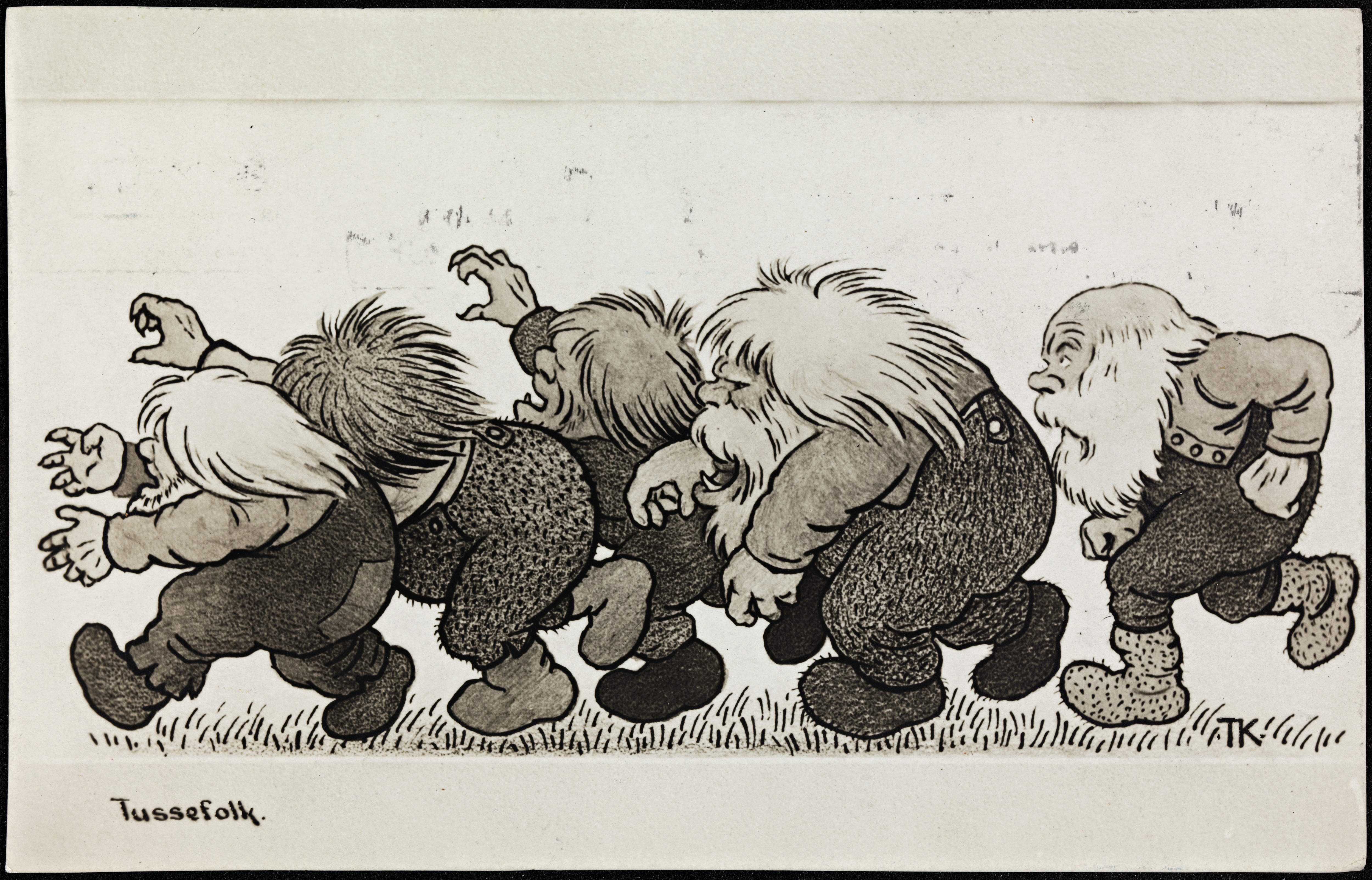 Beskrivelse / Description: Postkort / Postcard. Dato / Date:utgitt 1908 Kunstner / Artist: Theodor Kittelsen (1857-1914) Utgiver / Publisher: Kunstforlaget National A/S Digital kopi av original / Digital copy of original: sølvgelatin Eier / Owner Institution: Nasjonalbiblioteket / National Library of Norway Lenke / Link: Bildesignatur / Image Number: blds_06489